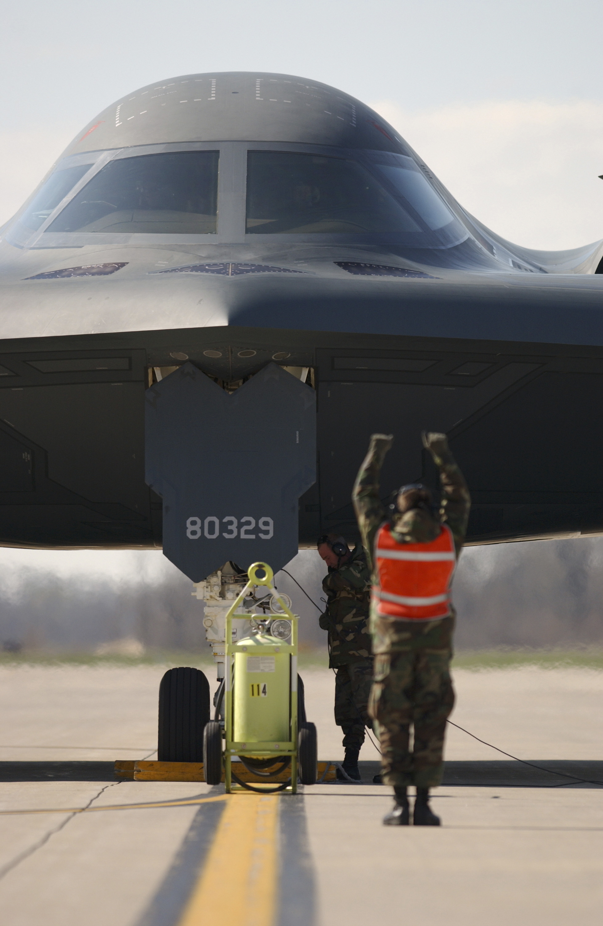 OPERATION IRAQI FREEDOM -- Airman 1st Class David Moses, a crew chief from the 509th Aircraft Maintenance Squadron at Whiteman Air Force Base, Mo., marshalls the B-2 named the Spirit of Missouri on March 31 at a forward-deployed location. The B-2 was returning from a combat mission over Iraq in support of Operation Iraqi Freedom. (U.S. Air Force photo by Tech. Sgt. Michael R. Nixon)